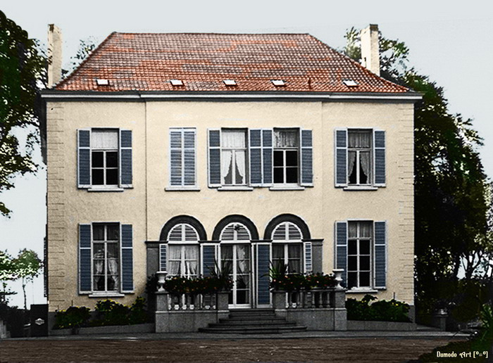 Oil painting of Chateau de Surmont in Cortryck (Kortrijk), Belgium